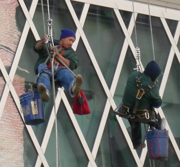 Window washers rappelling (abseiling) off of Seattle Central Library, Seattle, Washington